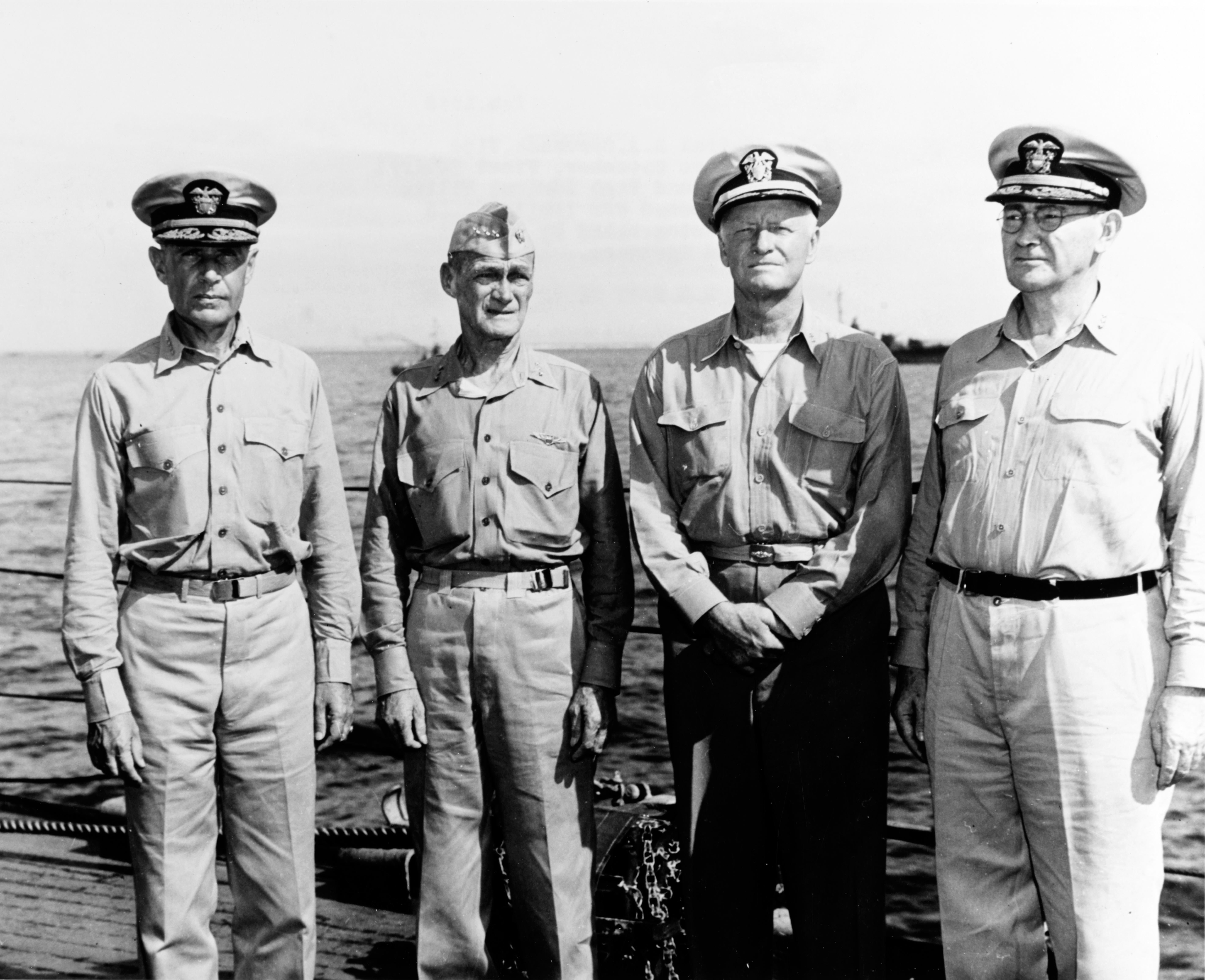 U.S. Navy Admiral Raymond A. Spruance, Vice Admiral Marc Mitscher, Fleet Admiral Chester W. Nimitz and Vice Admiral Willis A. Lee, Jr. (listed from left to right) aboard the heavy cruiser USS Indianapolis (CA-35) in February 1945.